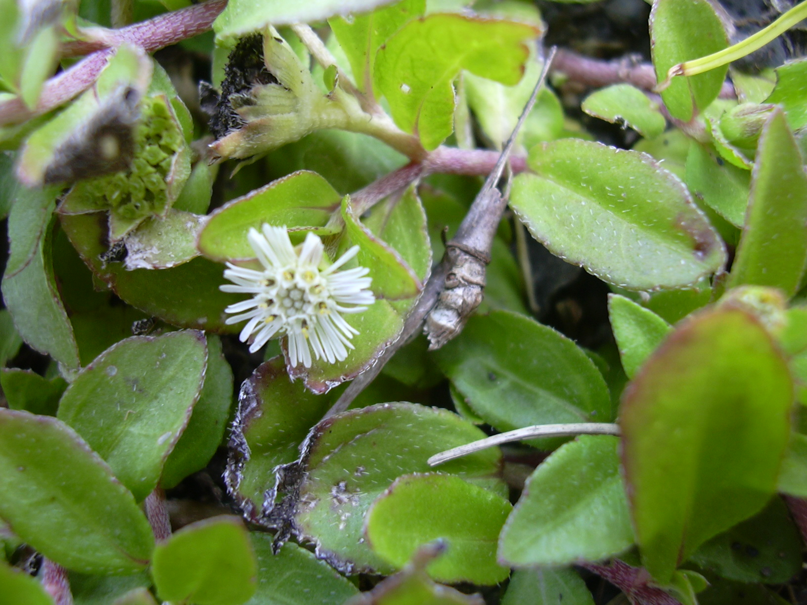 Eclipta prostrata (flower). Location: Maui, Hana Hwy